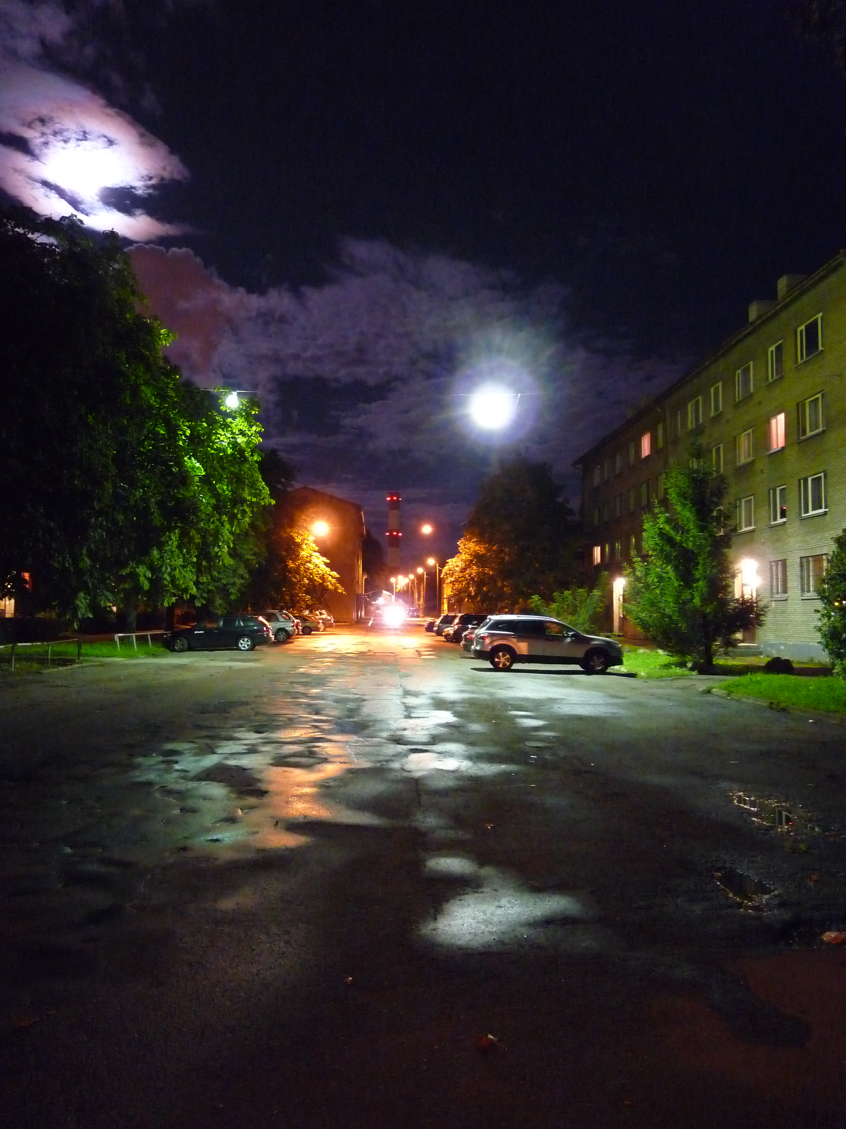 Jakobi street